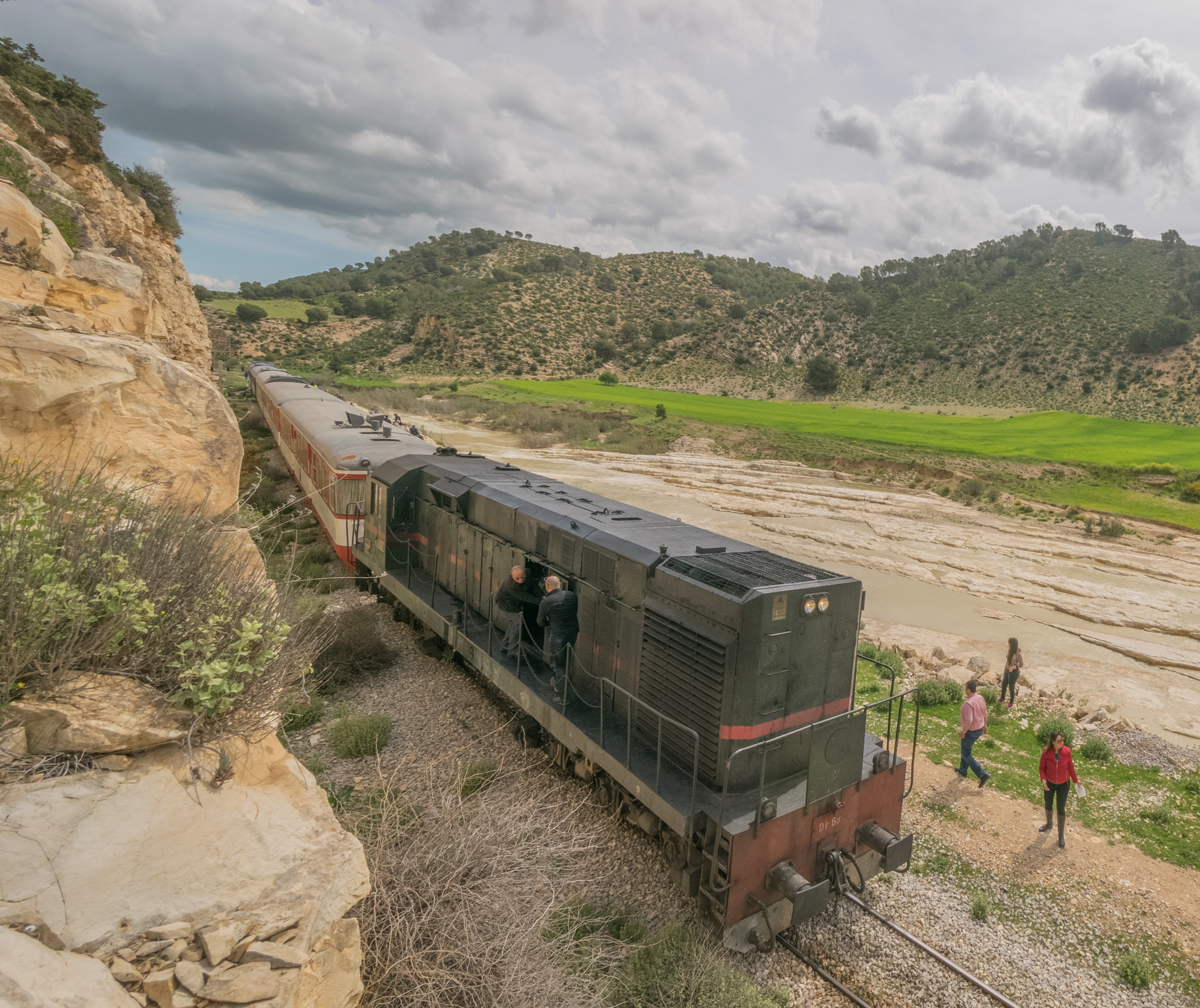 This is an image with the theme "Africa on the Move or Transport" from: Tunisia